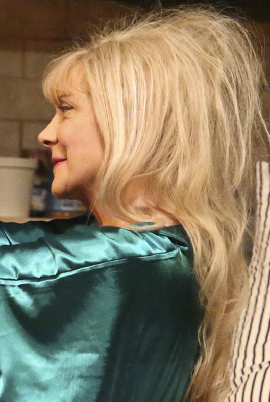 Glenne Headly as She in Stage Kiss at the Geffen Playhouse